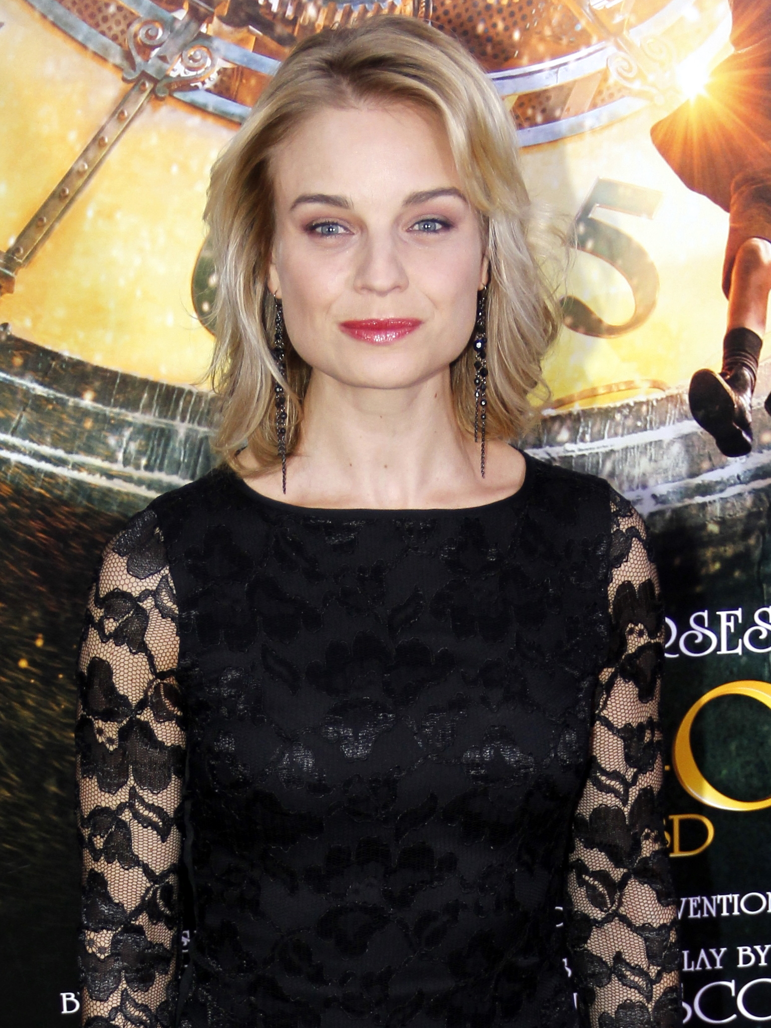 Hannah Yelland at the Hugo Premiere, New York City 2011.